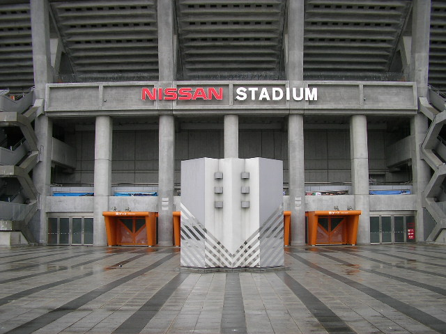 International Stadium Yokohama,Main Stand entrance